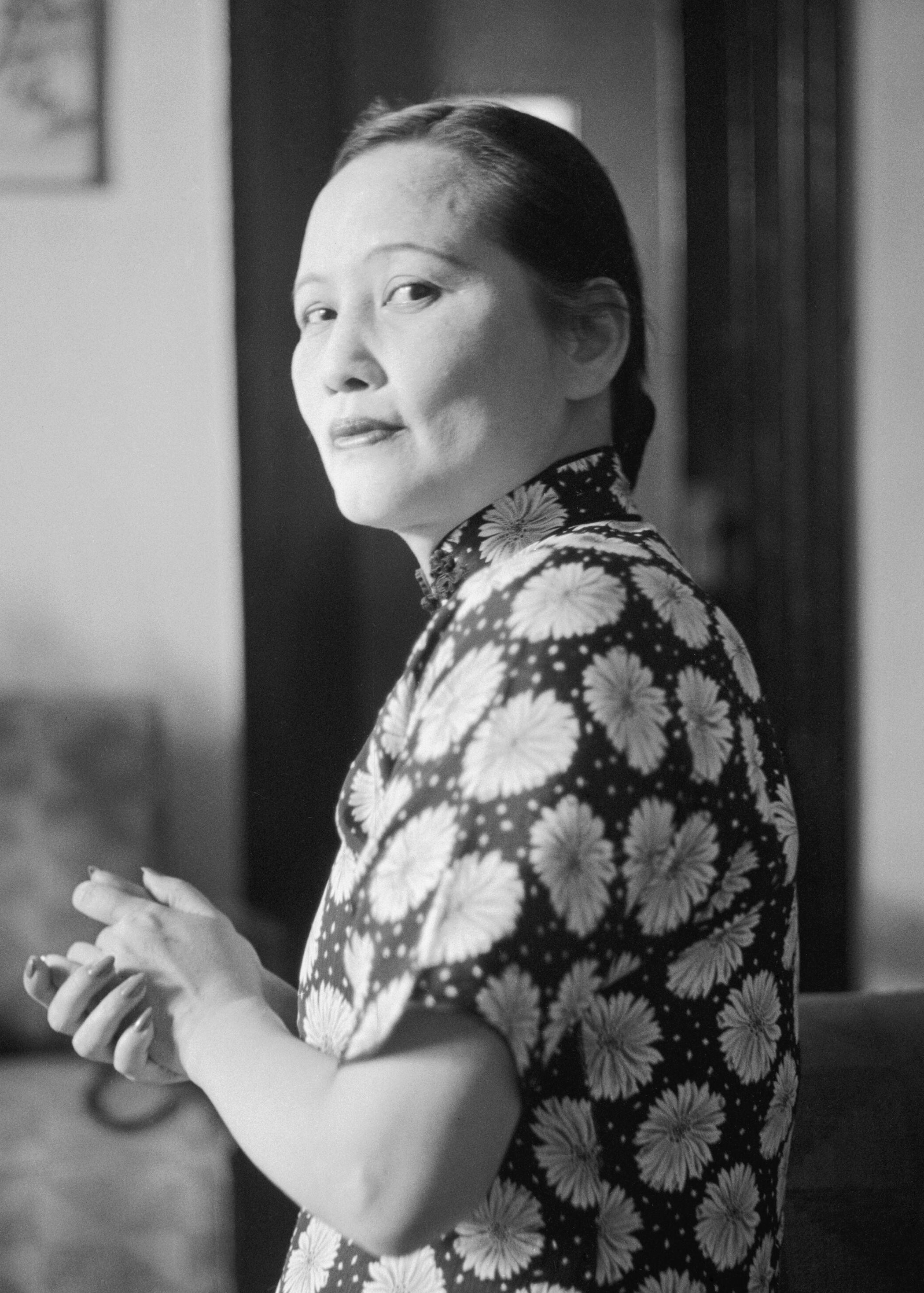 Cecil Beaton Photographs- Political and Military Personalities Political Personalities: Half length portrait of Madame Sun Yat-Sen, widow of the founder of the Chinese Republic, in Chungking.